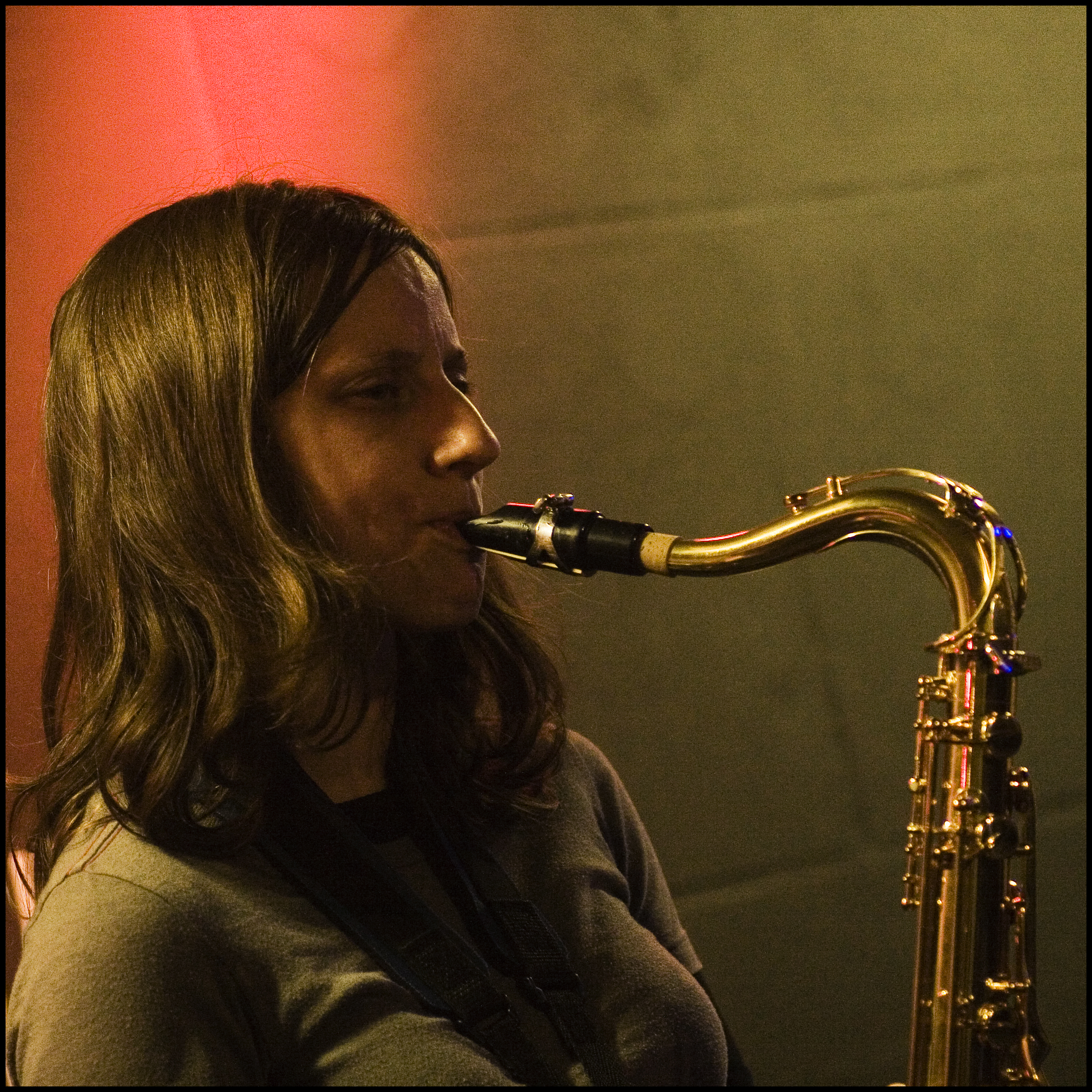 French jazz saxophonist Alexandra Grimal